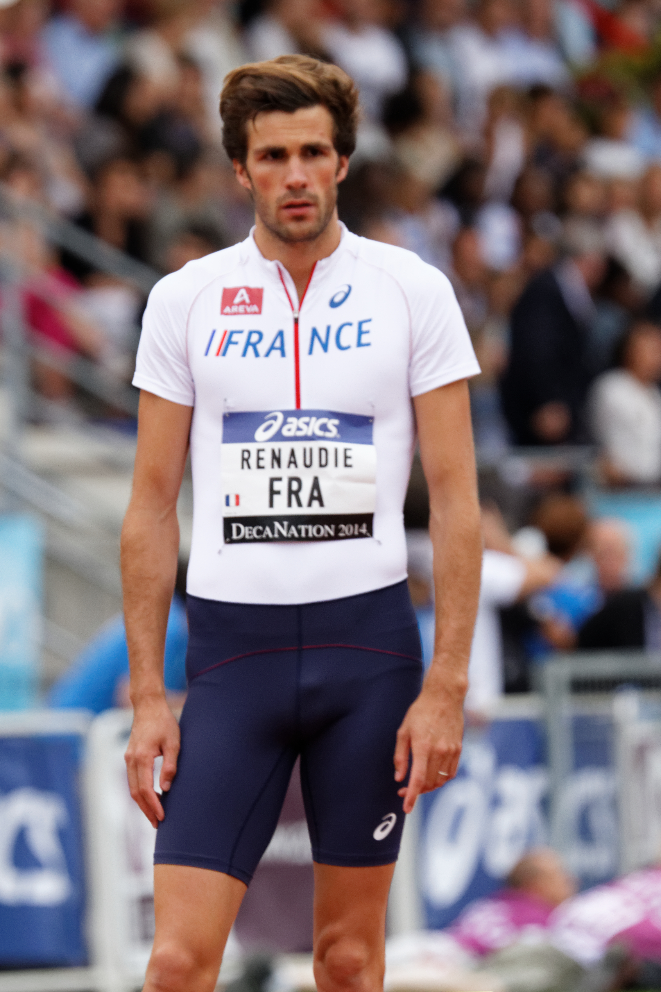 DécaNation 2014